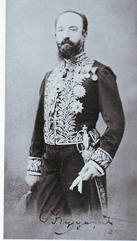 Milan Kujundžić Aberdar